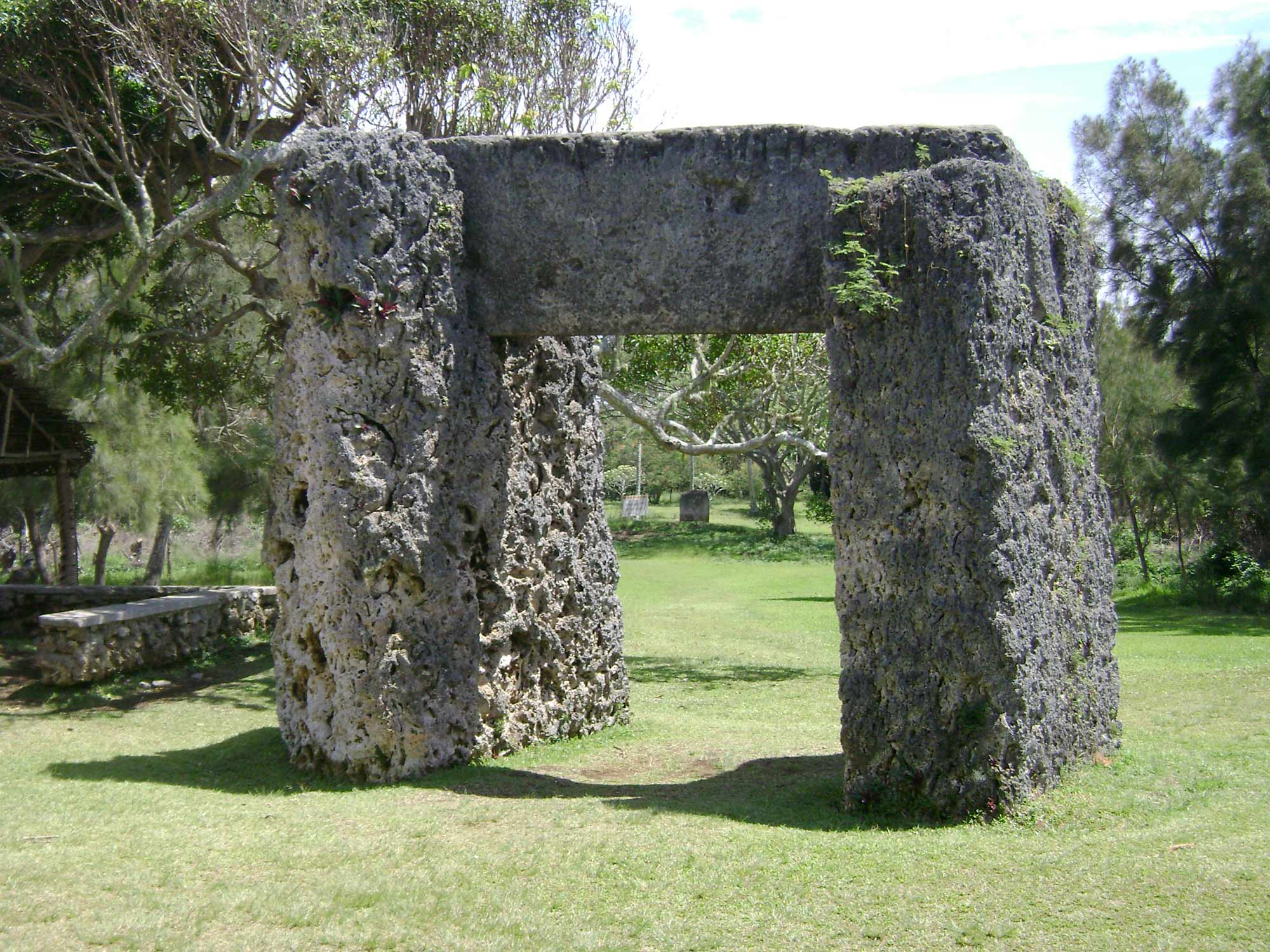 Haʻamonga ʻa Maui, a prehistoric megalithic momument, with the maka faakinanga in the distance; Tonga